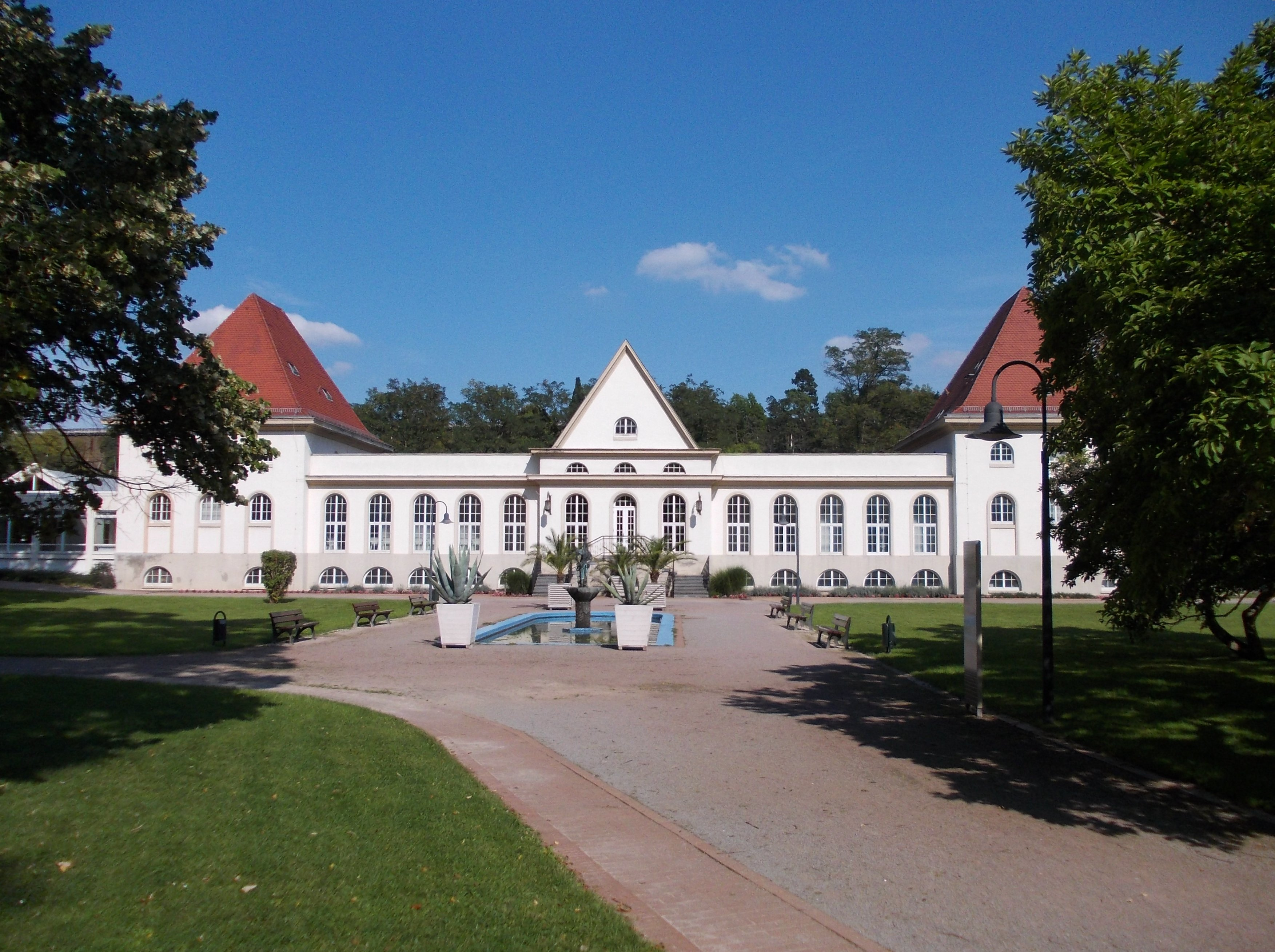 Spa building in the spa gardens of Bad Kösen (Naumburg, district of Burgenlandkreis, Saxony-Anhalt)